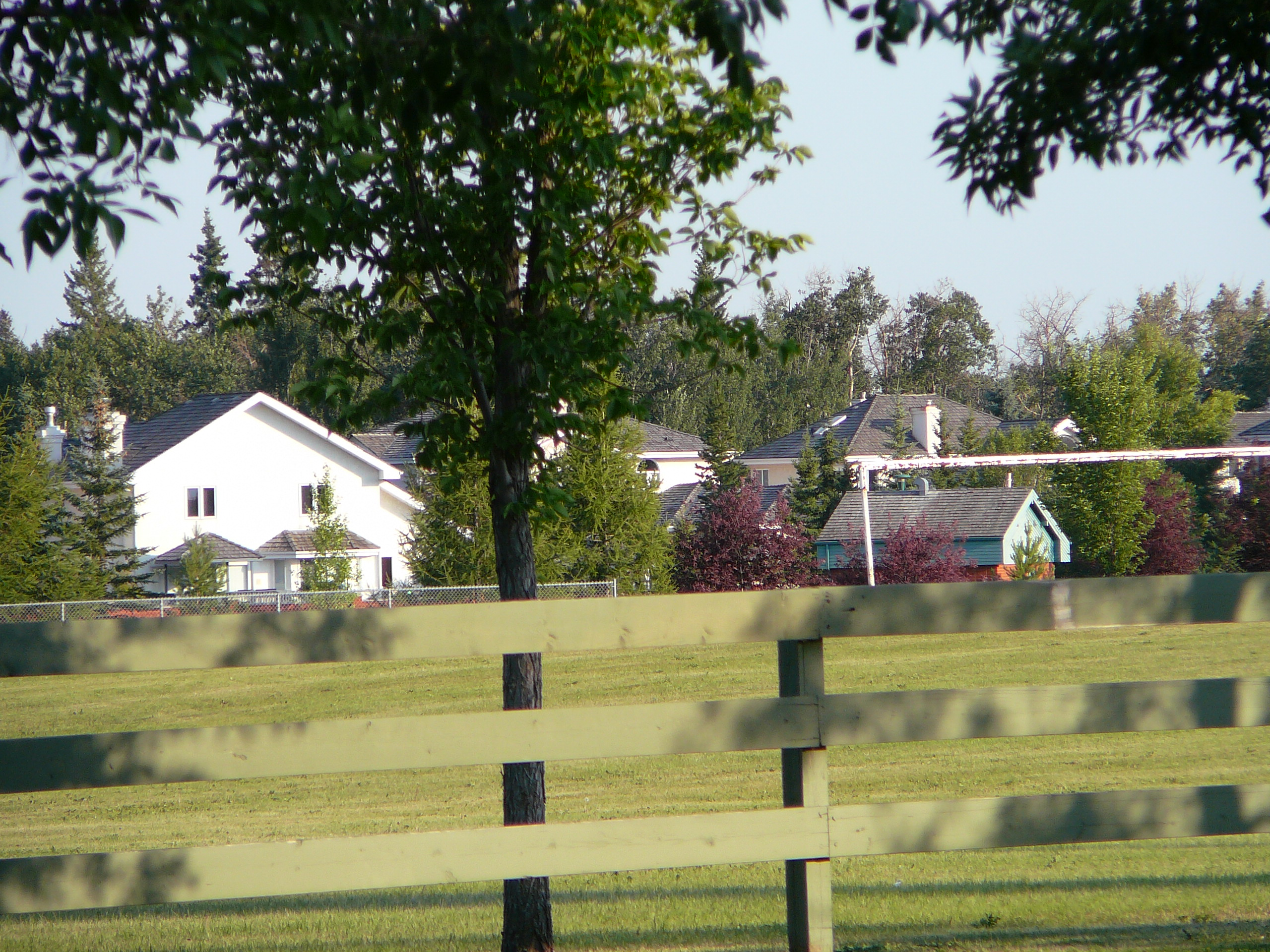 Picture of Wedgewood Park in the Edmonton Neighbourhood of Wedgewood Heights